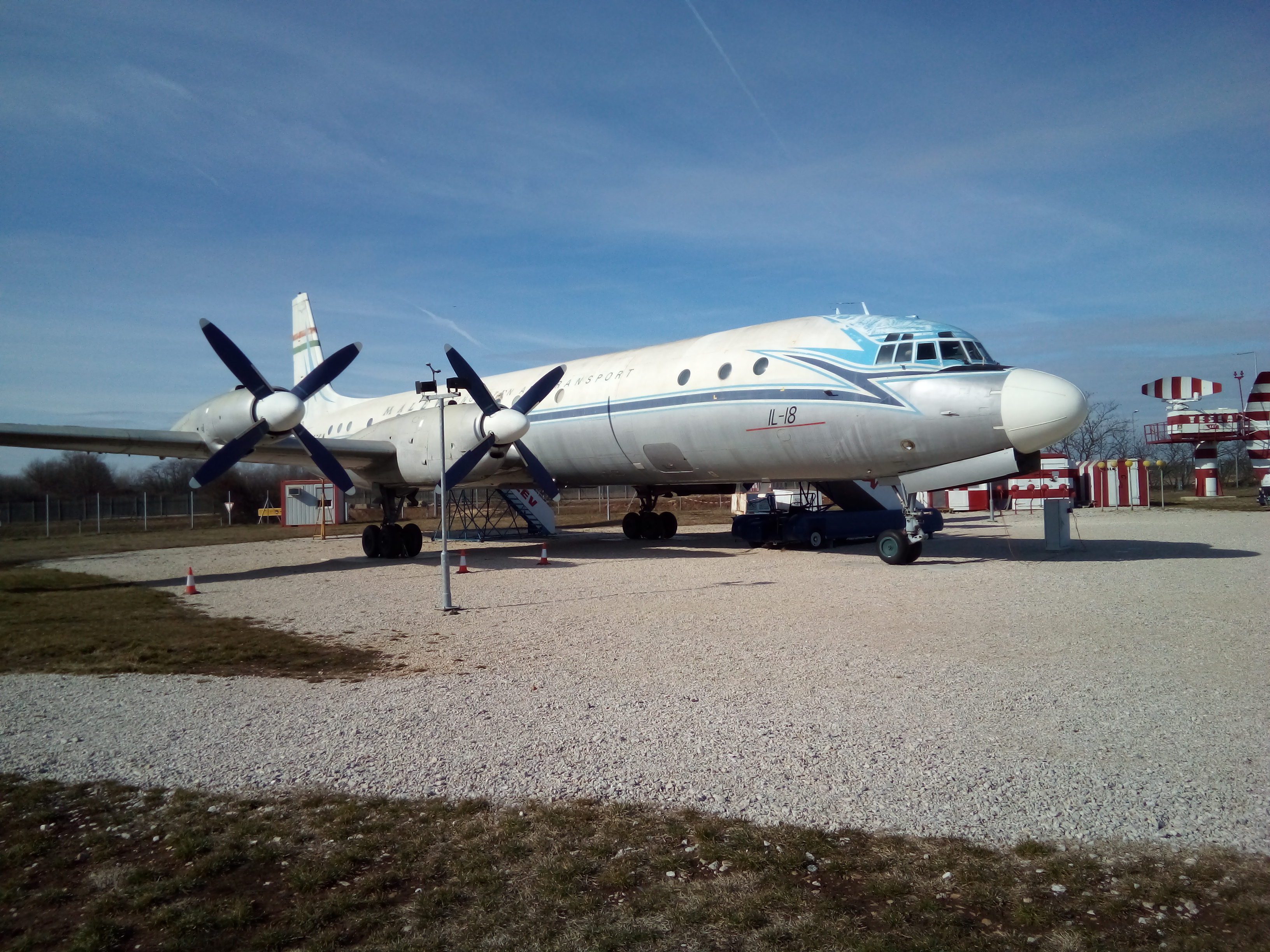 Il-18V